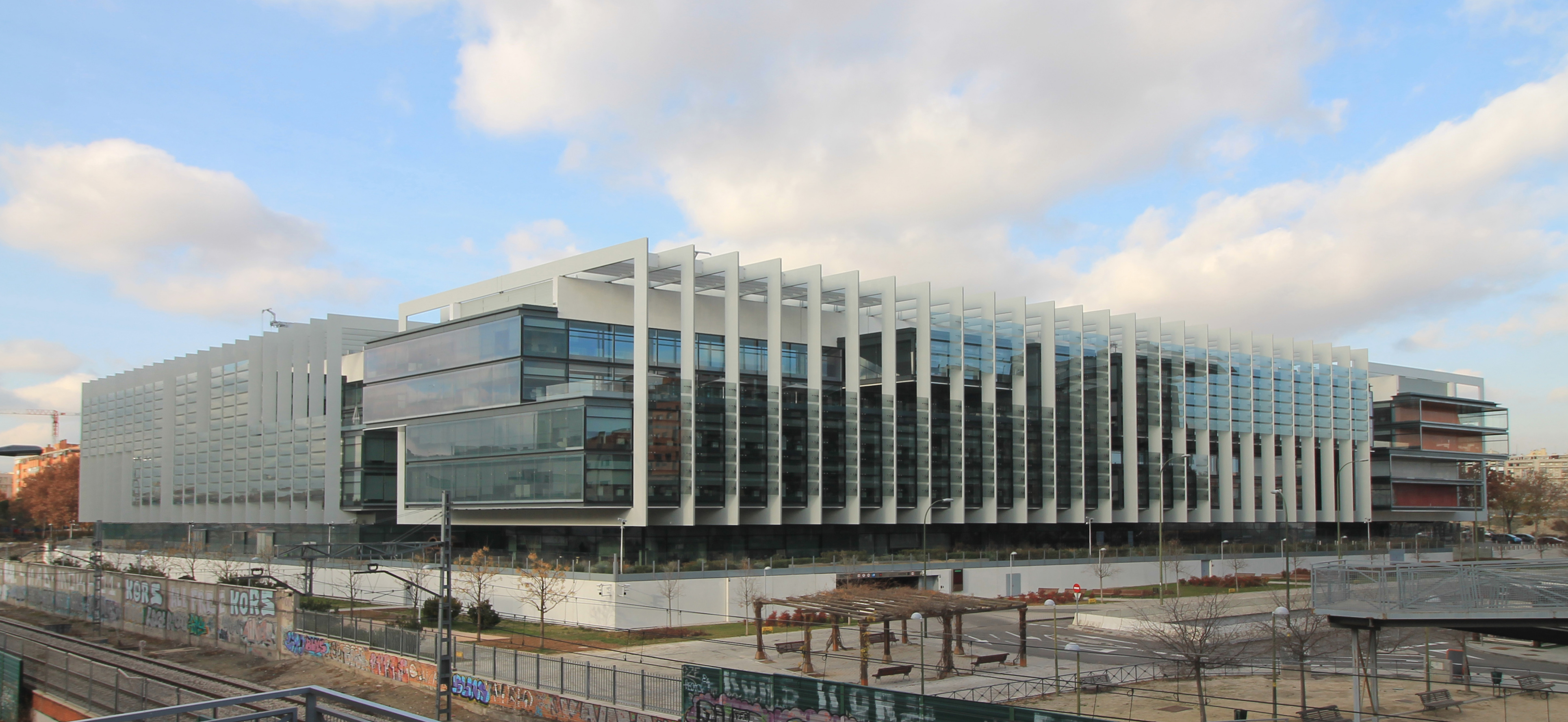 View of Repsol headquarters in Madrid (Spain) from the south angle.